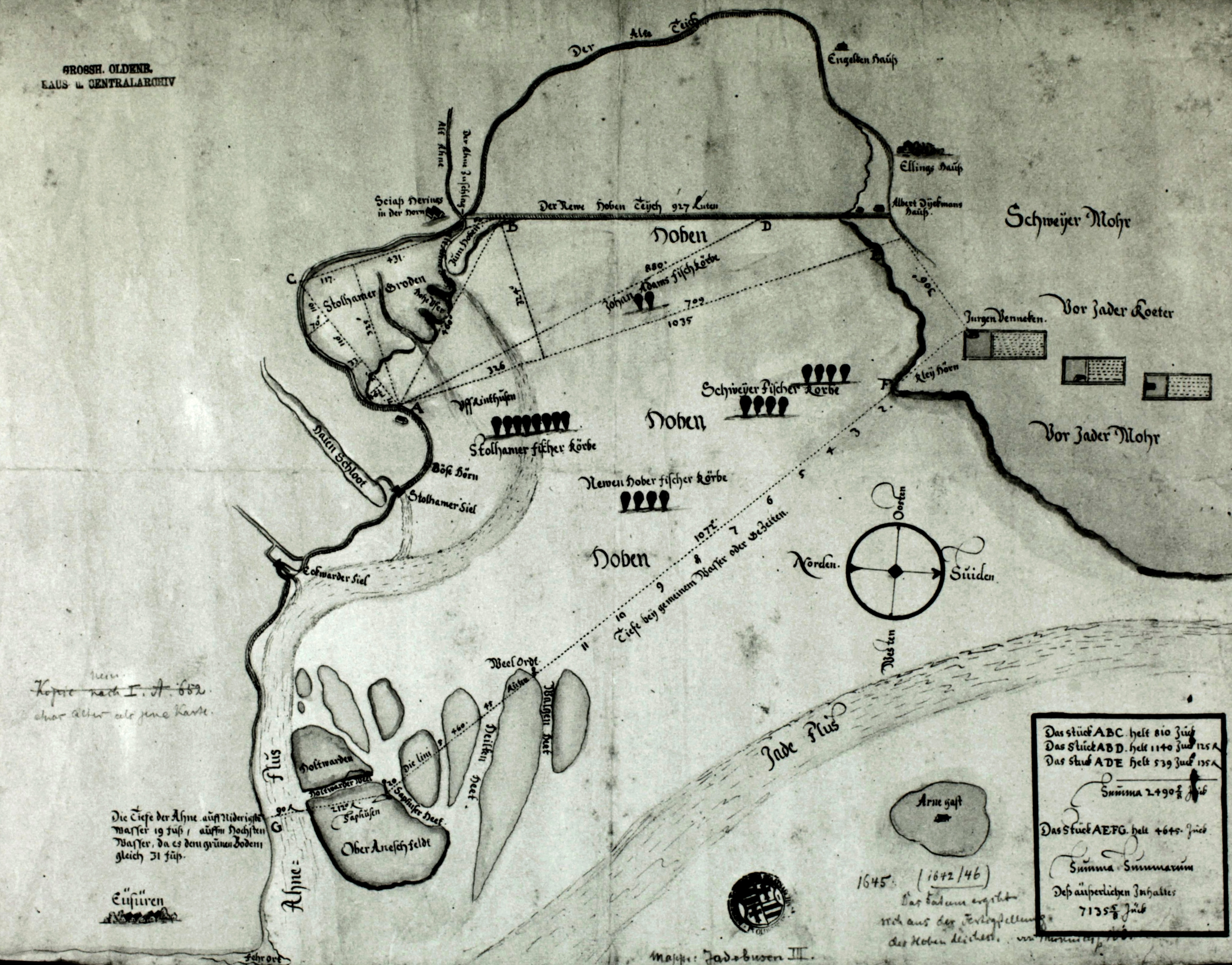 The islands of Oberahnesche Felder in Jade Bight, in the background the recently closed inlet of Hoben (previously called Lockfleth), two sections of the Ahne river, the Alte Ahne (Old Ahne) on land and the channel Ahne Flus(s) among the foreshore of Jade Bight, the Island of Arn(e)gast is presented much nearer and much smaller than in other maps of the same author; furthermore distance lines and depths are marked, showing a tide range of 12 feet.